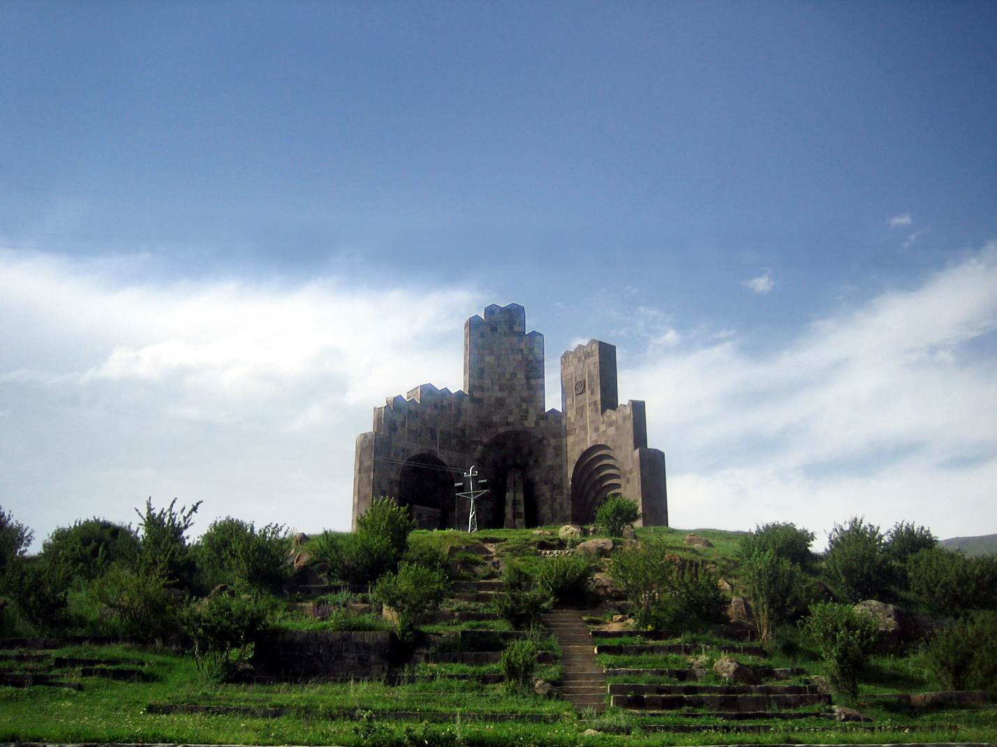 Monument to the Battle of Bash-Aparan, Aparan, Armenia.